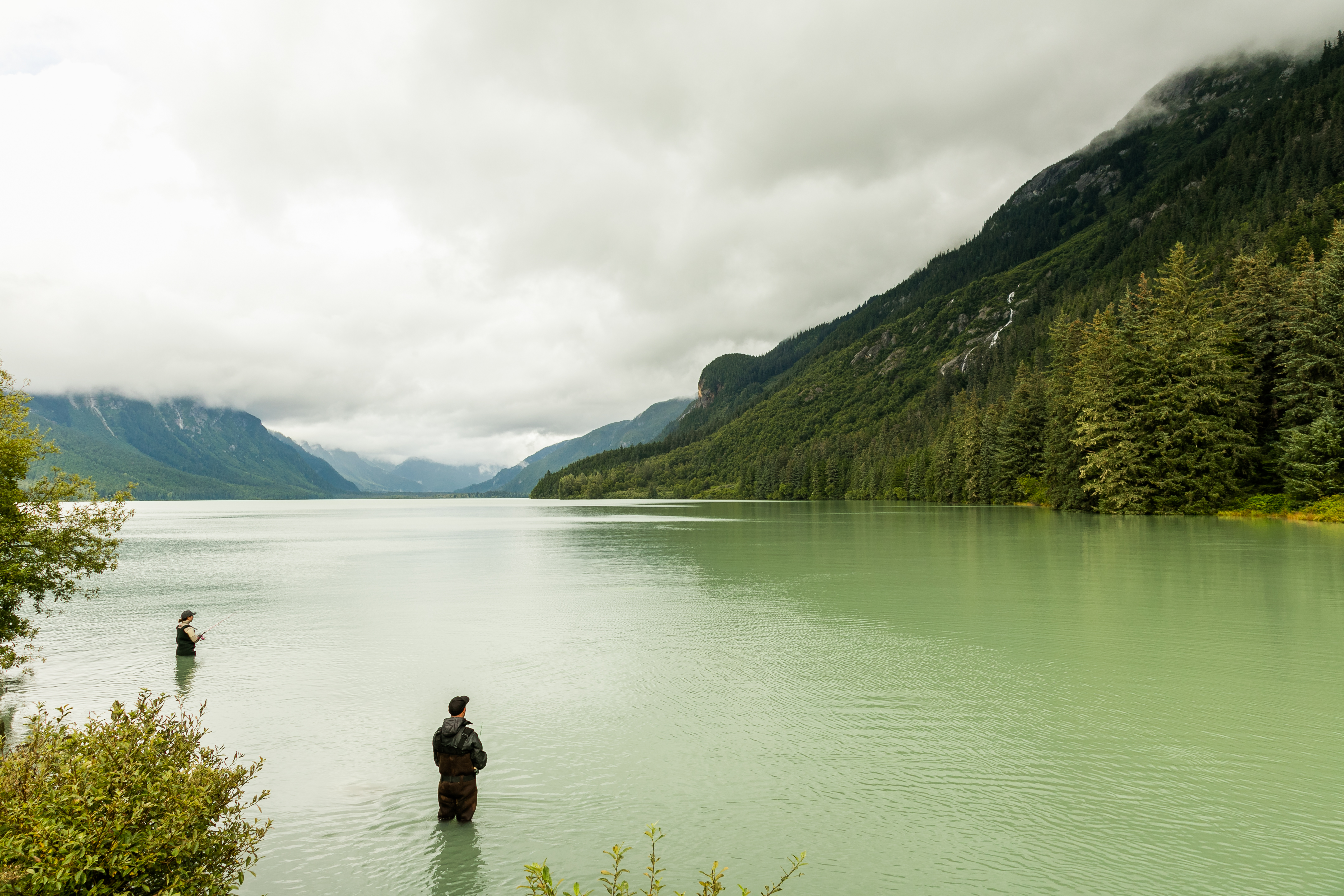 Chilkoot Lake State Recreation Site, Haines, Alaska, United States